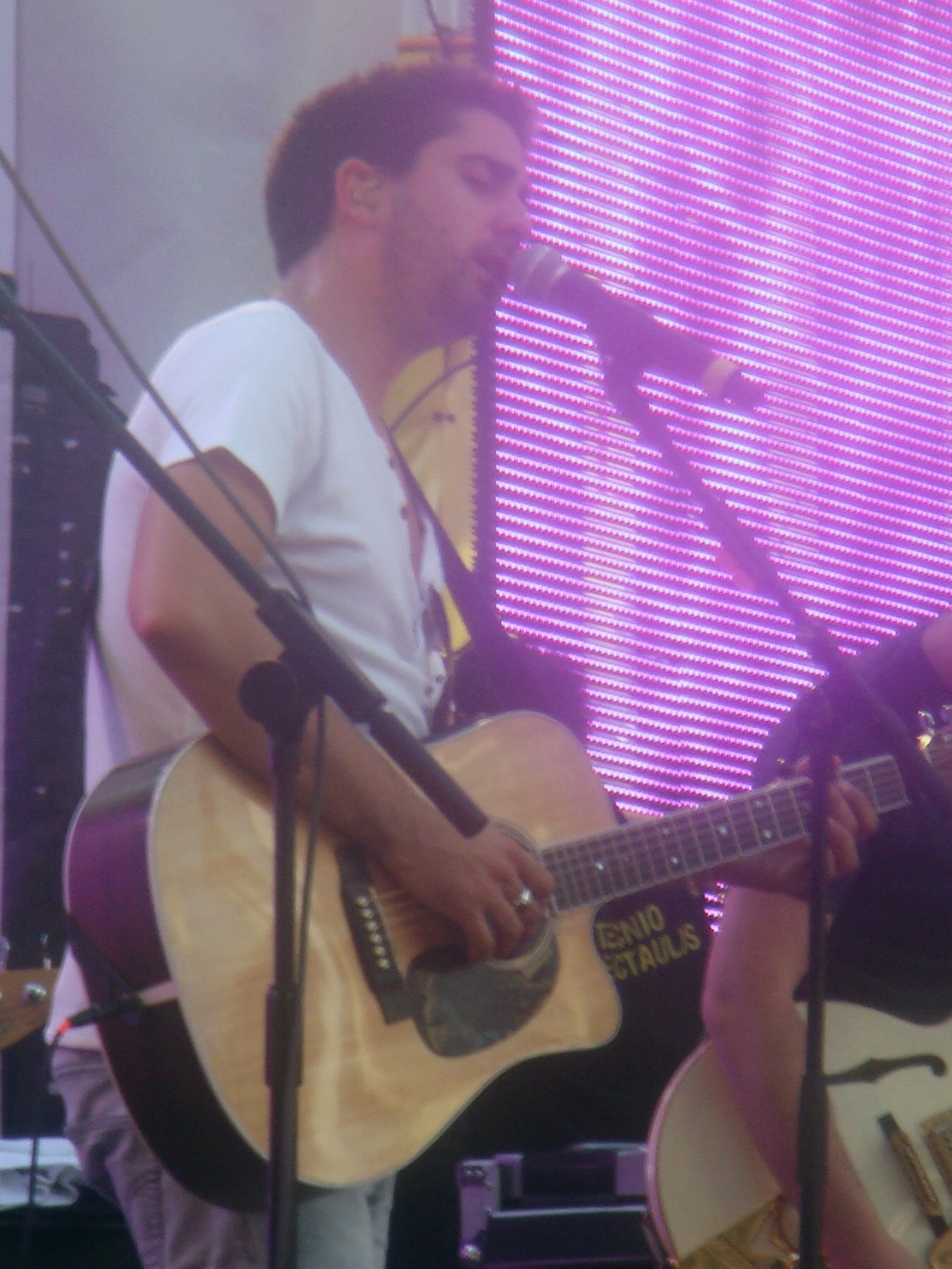 Alex Ubago performing at a concert in Madrid.